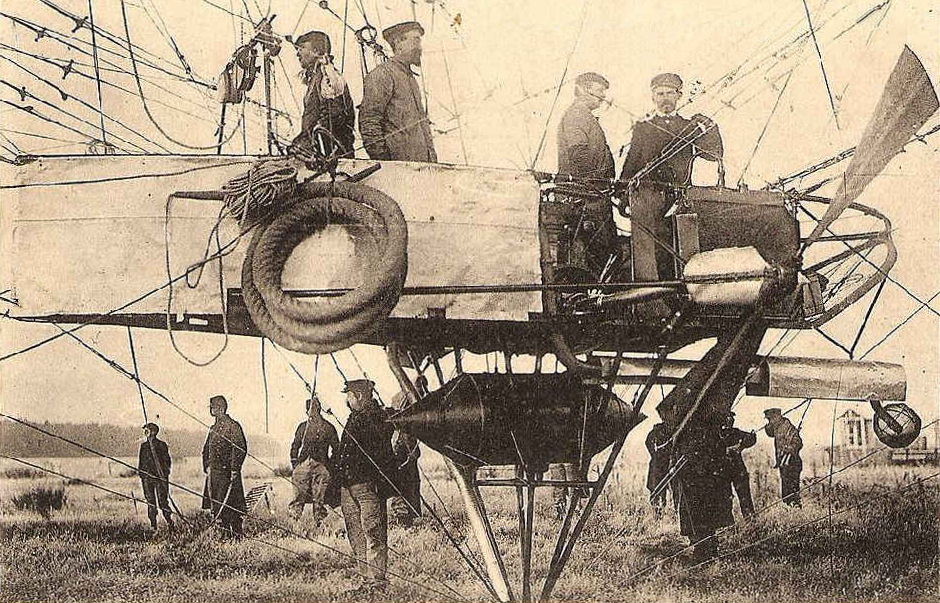 A post card. Close-up of the Patrie's gondola in 1906, showing fuel tank, exhaust pipe and the propeller shape.